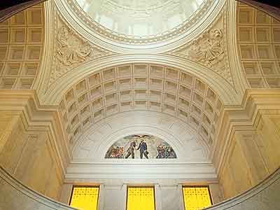 View of rotunda and dome of Grant's Tomb from lower crypt level.